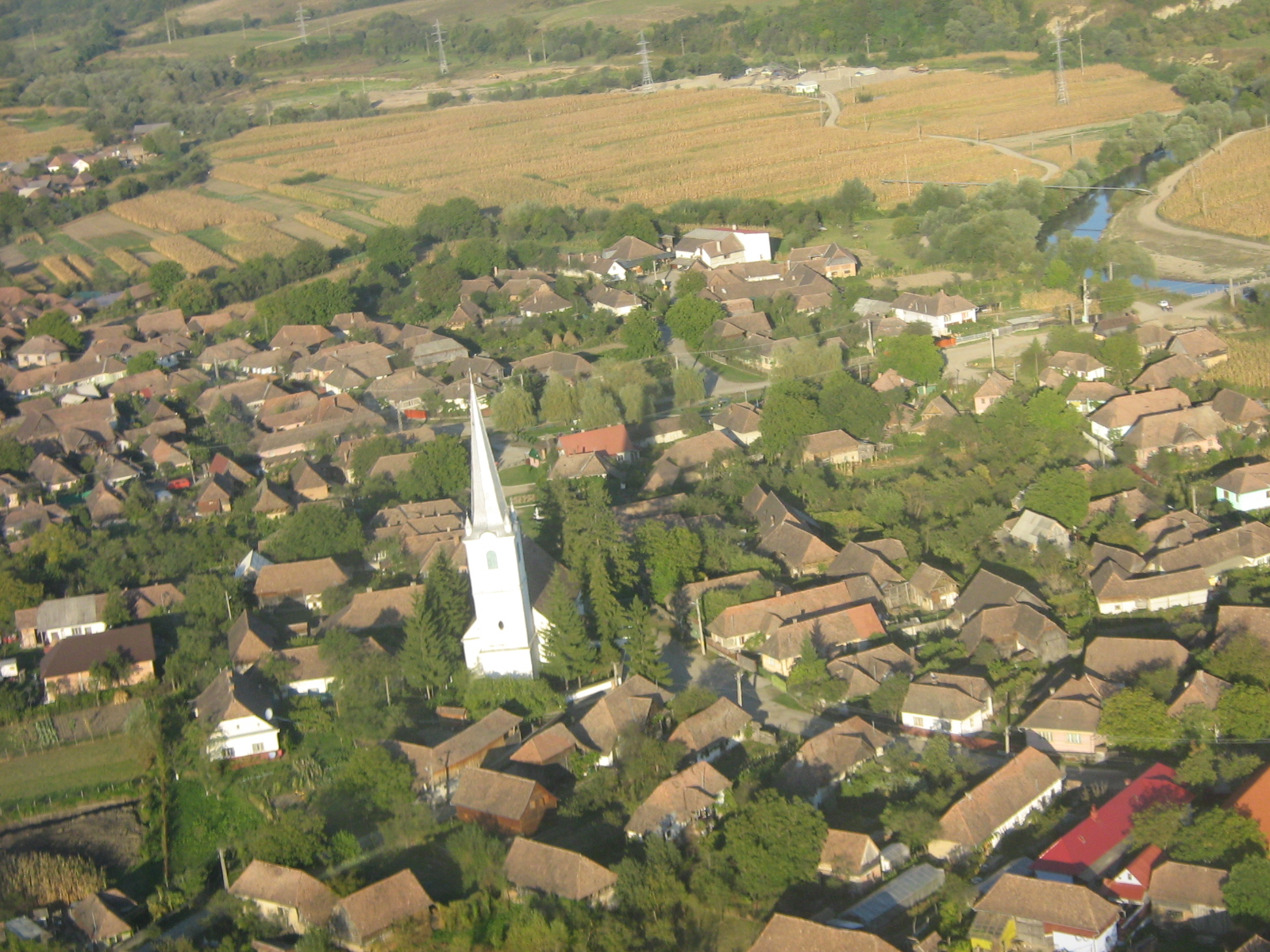 Aerial photo of Kibéd